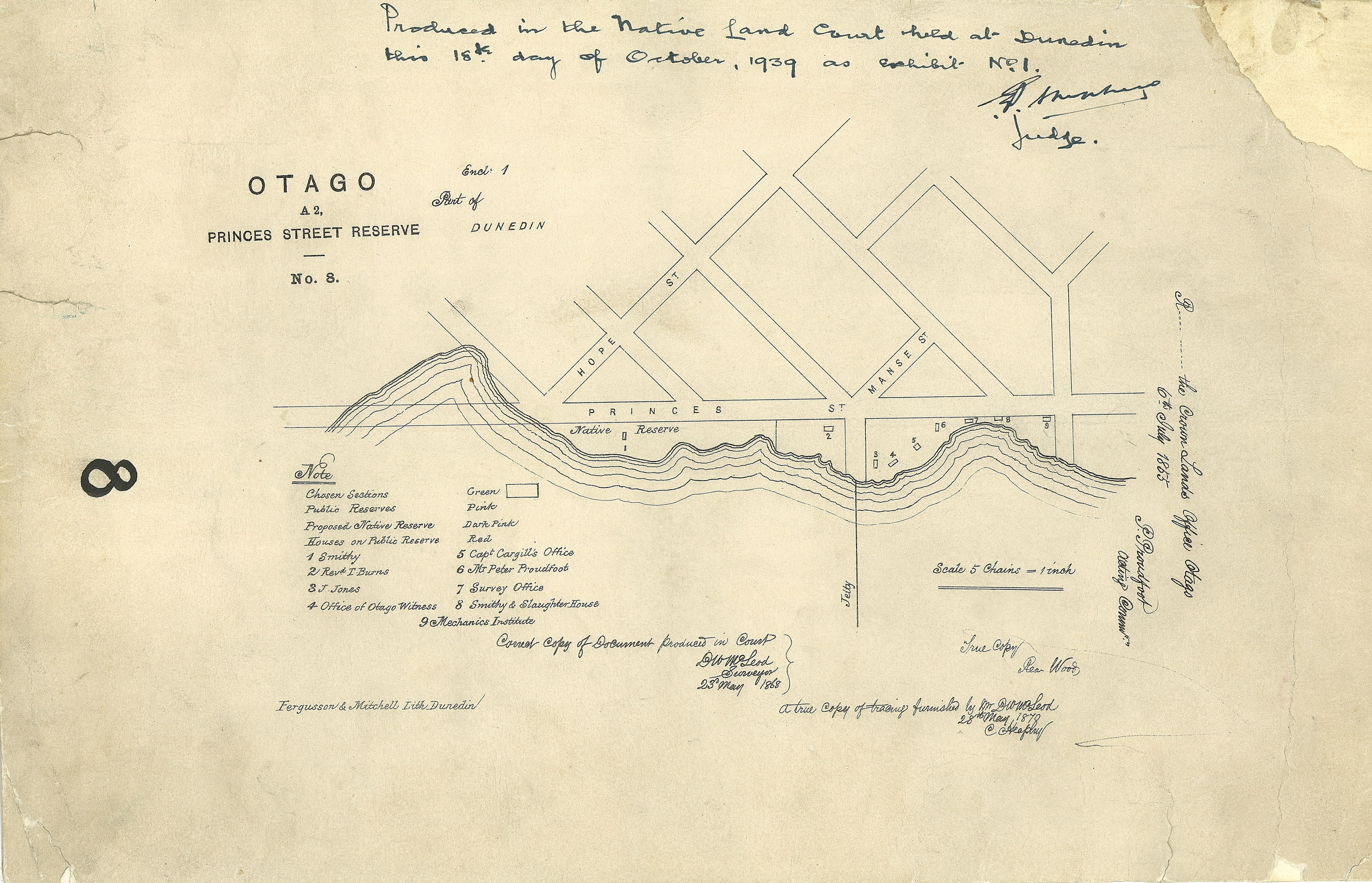 This plan shows the Otago A2 Princes Street Reserve as it was in 1855, 1868 and 1870. The Reserve had been set aside, in 1853, by Walter Mantell for Ngai Tahu to use when they visited Dunedin – to land their waka and for accommodation. The plan was created from the original survey plans for Dunedin by the Otago Provincial Survey. However, the Otago Provincial Government had also claimed rights to the use of shoreline for harbour development. The plan was part of evidence before the Native Land Court hearing held at Dunedin on 1 October 1939. The Court was asked by Teoti Timoti Karetai and others to investigate the title of the Princes Street Reserve. More background on the Reserve, ownership issues and the Court case can be found in the Appendix to the Journals of the House of Representatives (AJHRs), 1945 Session I, G-06b – The Native Purposes Act, 1938 – Report and Recommendation on Petition No. 49 of 1937, of Teoti Timoti Karetai and Others, Praying for an Investigation of the Native Reserve in Princes Street, Dunedin: The Court case described the history of land ownership and made no recommendation. The issue of title was again investigated in Ngai Tahu's Treaty of Waitangi Tribunal Claim WAI–27: the report of the Waitangi Tribunal – Ngai Tahu Land Report – WAI–27, 1991 – - Sections 2.3 and 7. There is an article about Ann Parsonson, an historian, who researched the history of the Princes Street Reserve on Ngai Tahu's website: as part of the claim settlement process. A brief history of Ngai Tahu is on Te Ara: The water's edge was somewhere near Bond Street and State Highway 1 going north, also known as Crawford Street. Archives Reference: DAHG D497/22/e – Otago A.2, Princes Street Reserve No.8 [shows Maori Reserve] 1939